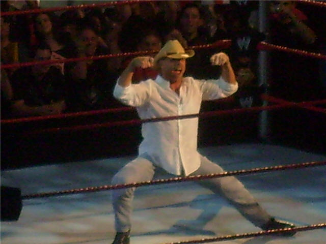 Shawn Michaels showing off his pose